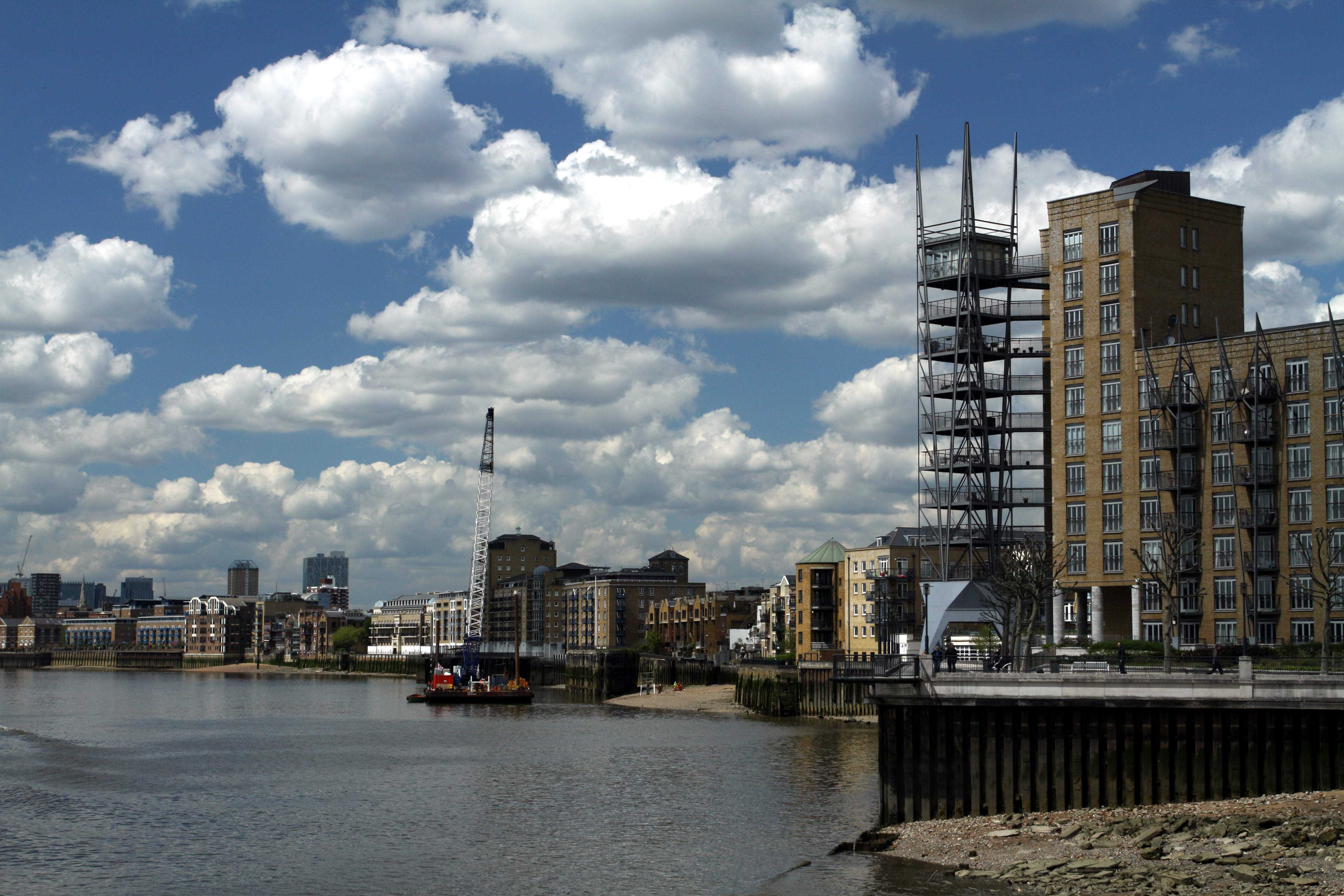 House with tower in Dundee Wharf street during Themes Path in London Borough of Tower Hamlets, London, England, Great Britain The making of this file was supported by Wikimedia UK.